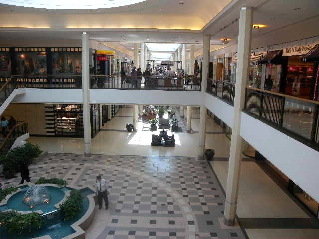 Looking south and down in the northern court of SHV on a sunny midday.